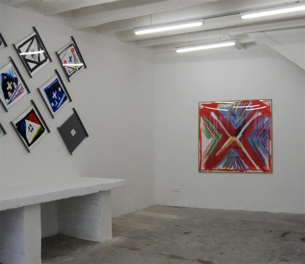 Exhibition of Patrick Saytour "Torchons-Collection" at Nîmes in the spring of 2008.